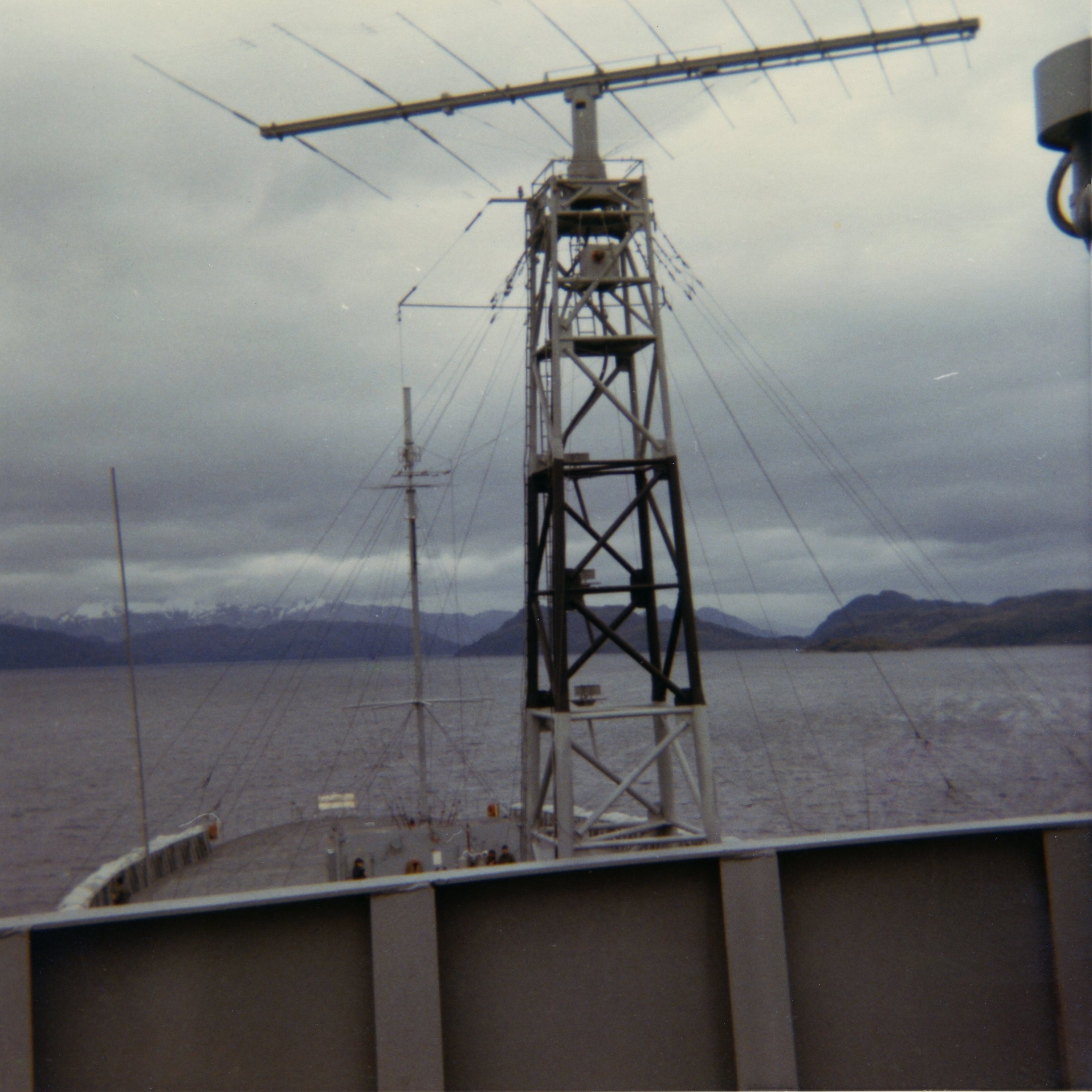 March of 1971, in the late summer of the Southern Hemisphere.